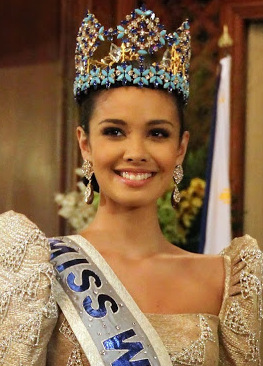 President Benigno S. Aquino III congratulates Miss World 2013 Megan Young during a courtesy call at the Reception Hall of the Malacañang Palace on Monday (October 14). She was crowned in Bali Nusa Dua Convention Center in Bali, Indonesia on September 28, 2013 making history as the first Filipina to win the title of Miss World since its foundation in 1951. Young bested 126 contestants from around the world. (Photo by Gil Nartea / Quiel Supera/ Malacañang Photo Bureau)